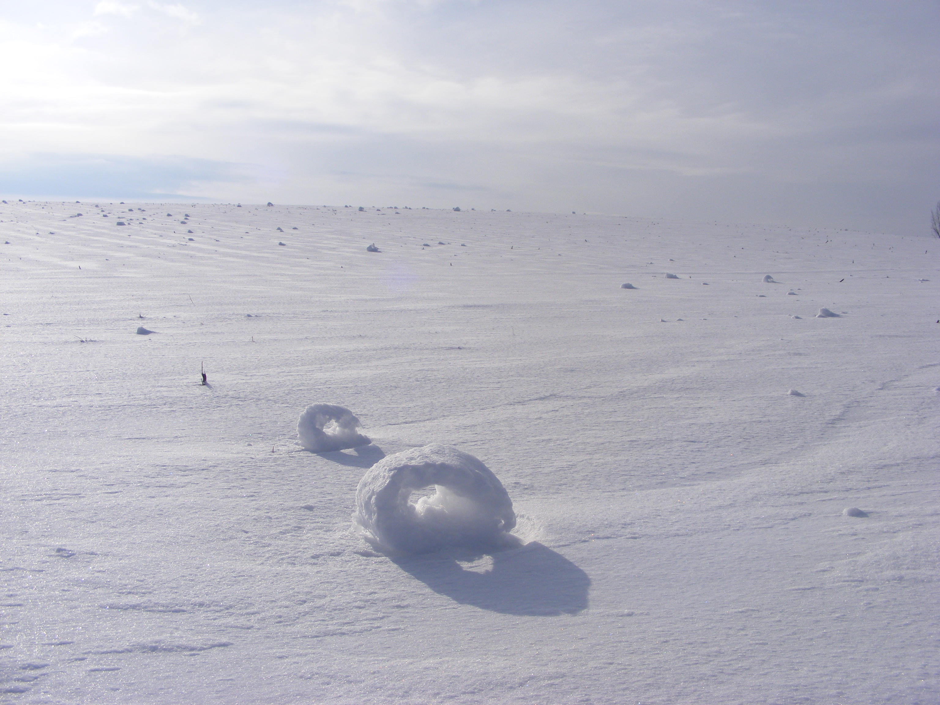 Schneeringspuren